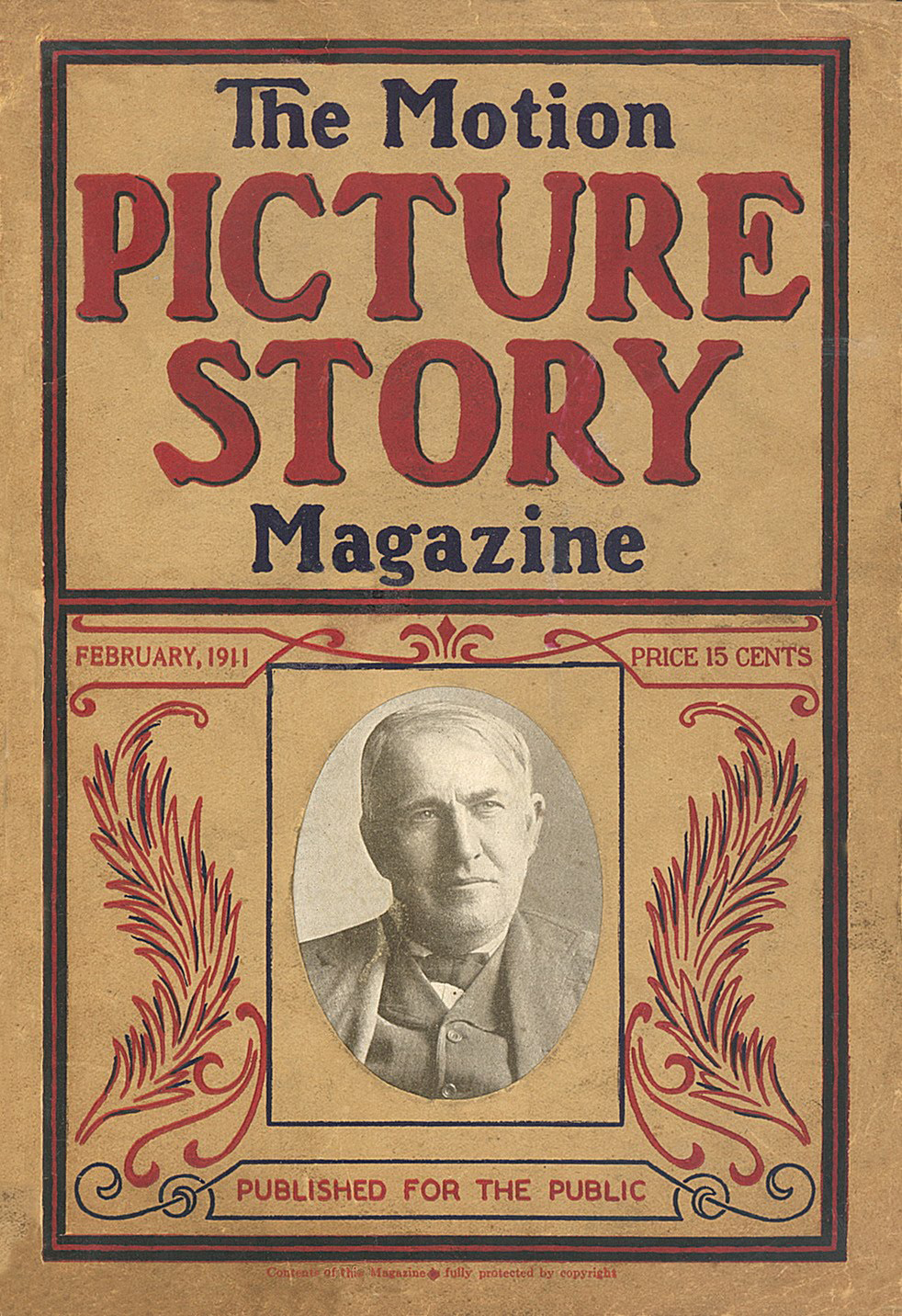 Cover The Motion Picture Story Magazine February 1911 (Volume 1, Number 1)